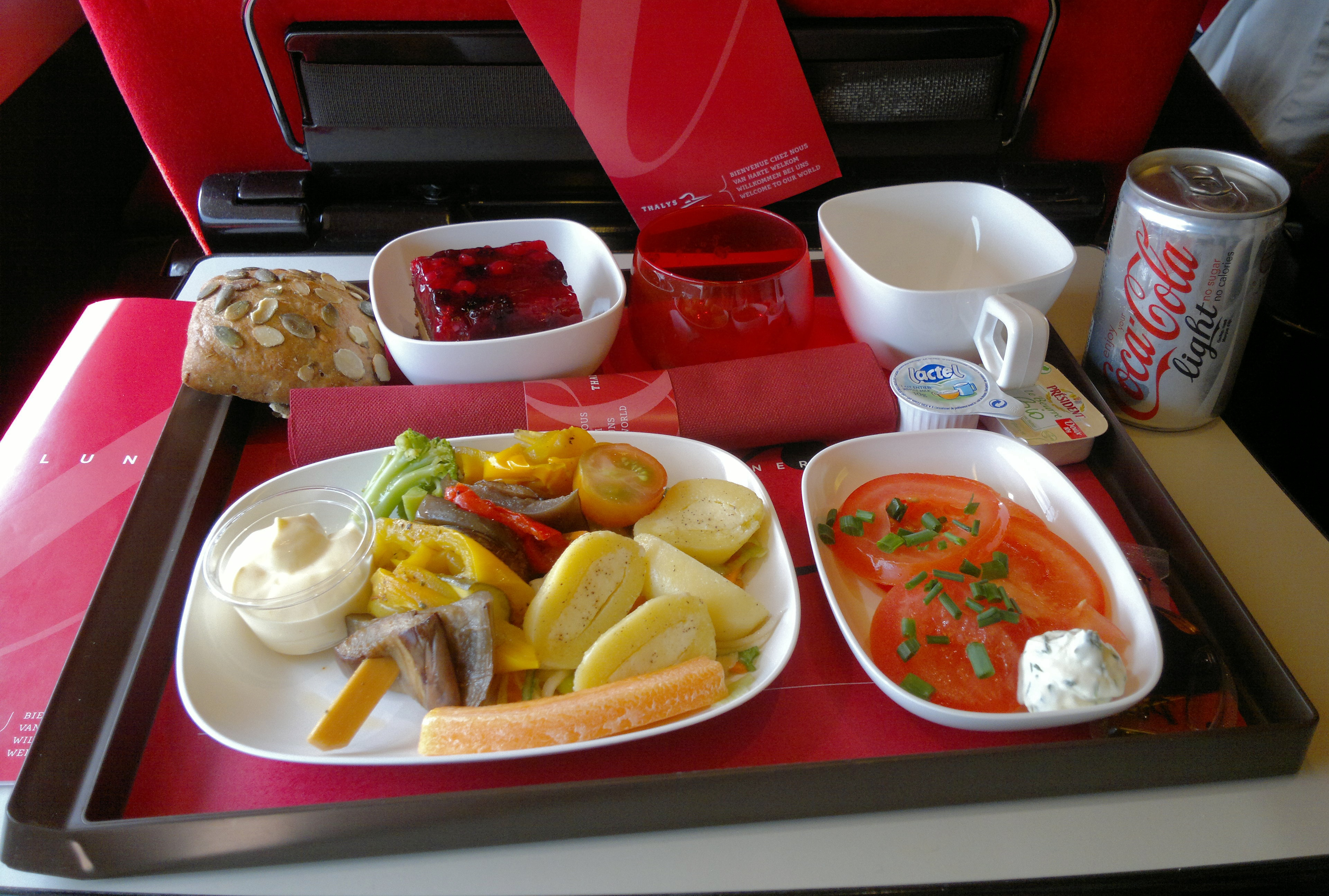 Lunch in the First Class on Thalys.